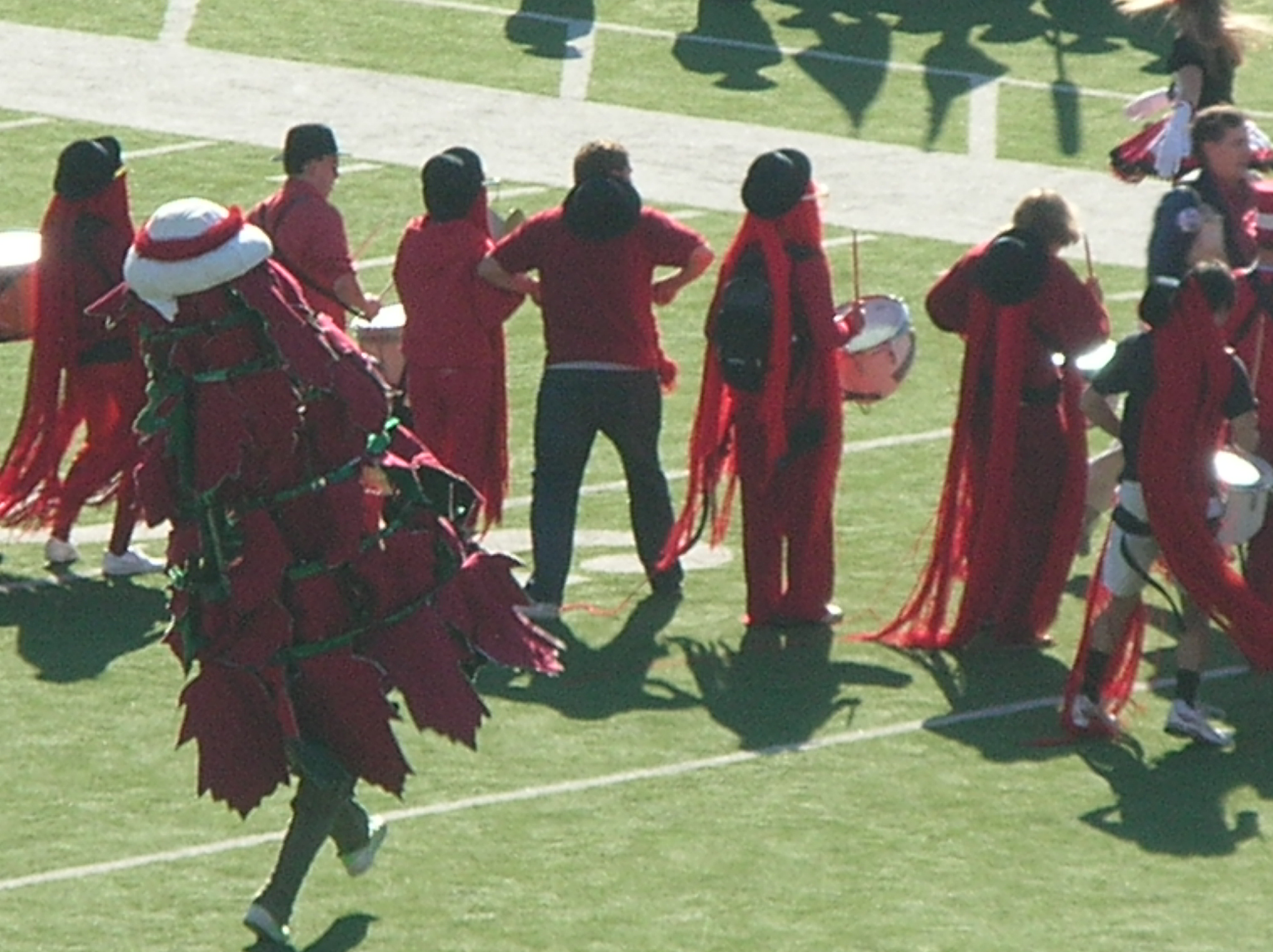 The Stanford Tree (left) and Stanford Band performing prior to the start of the 2008 Big Game.